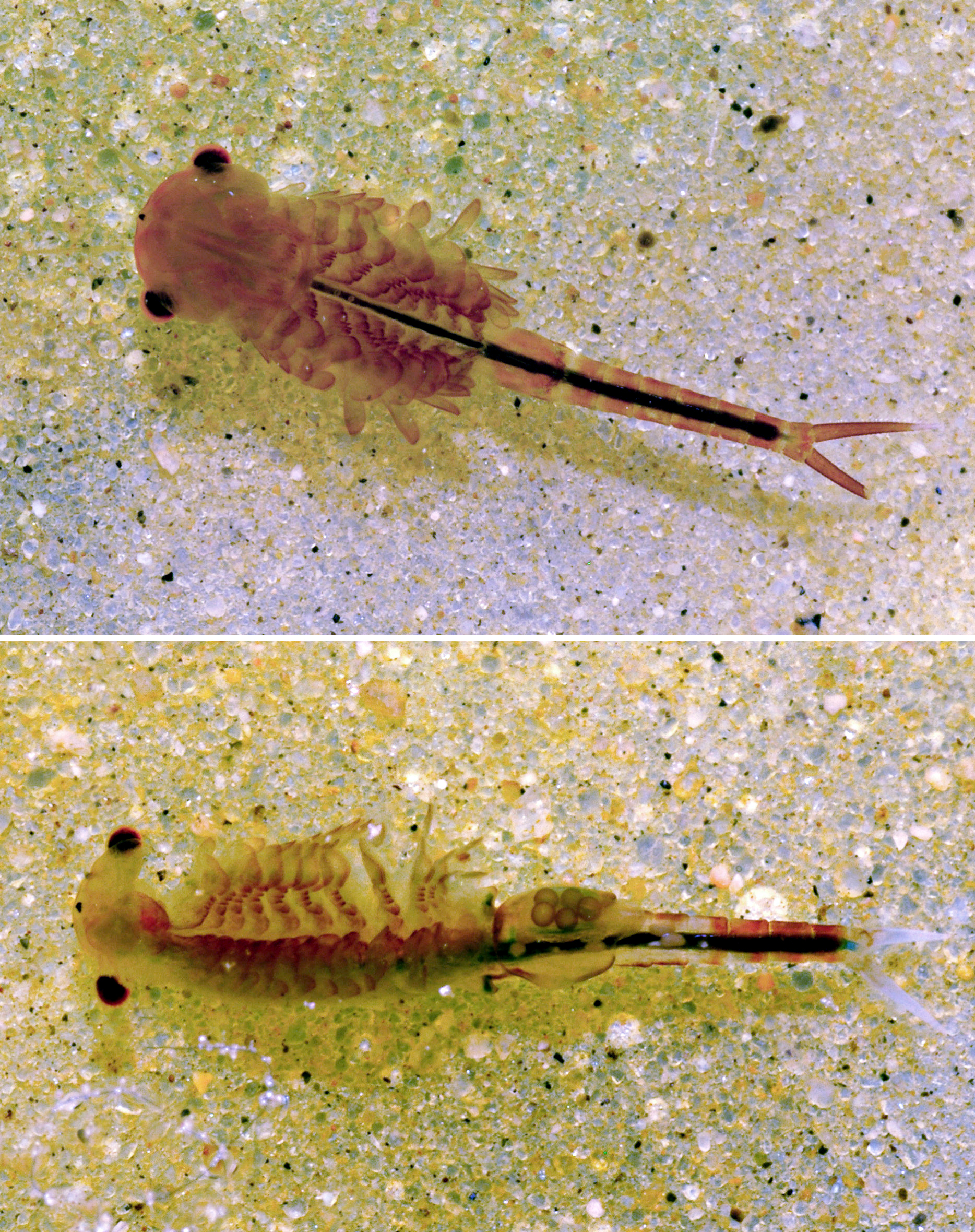 A species of Fairy shrimps (Anostraca), Eubranchipus grubii. Male (top) and female specimen, each of about 15 mm length.